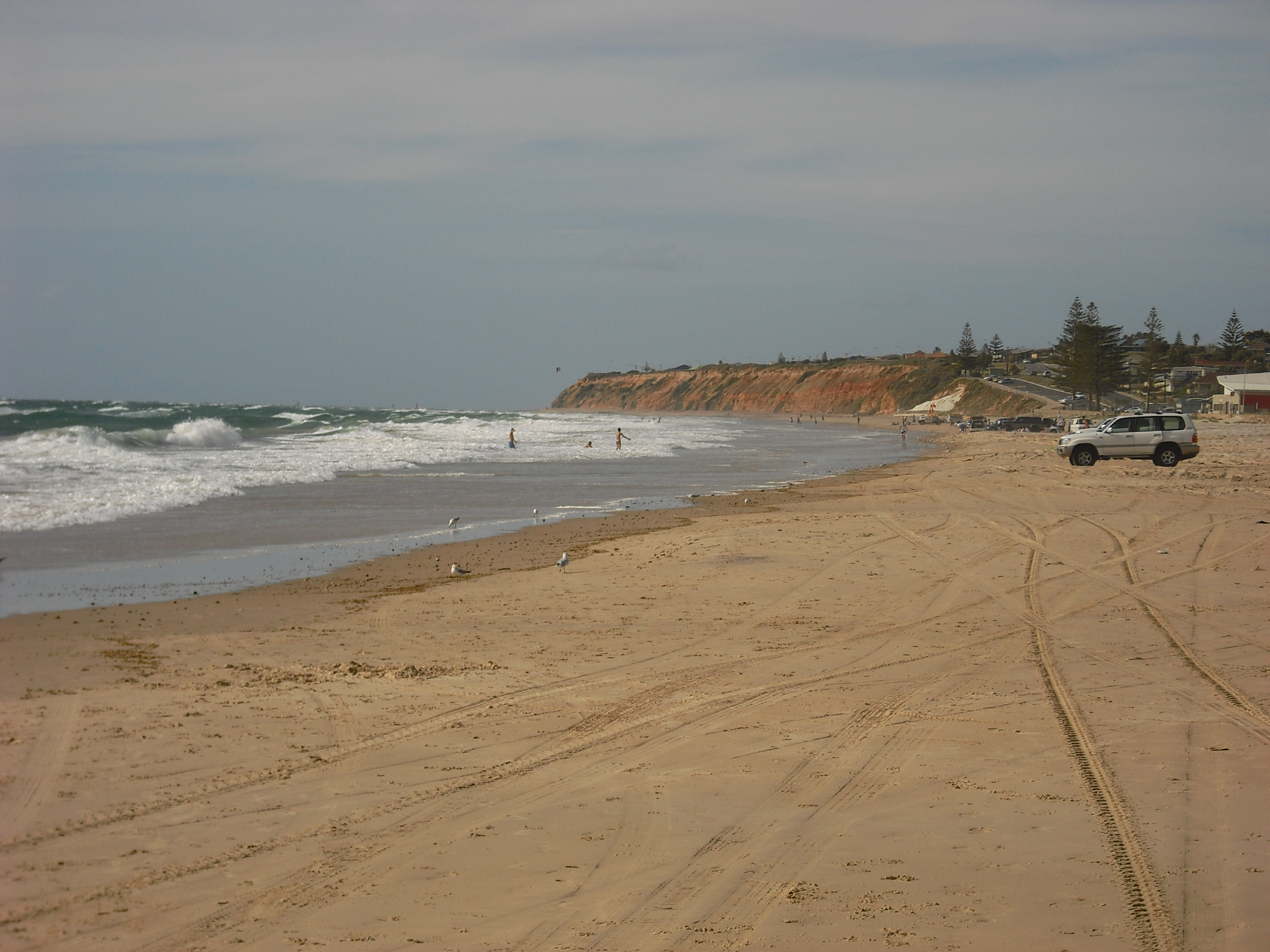 A section of the beach in Moana, SA